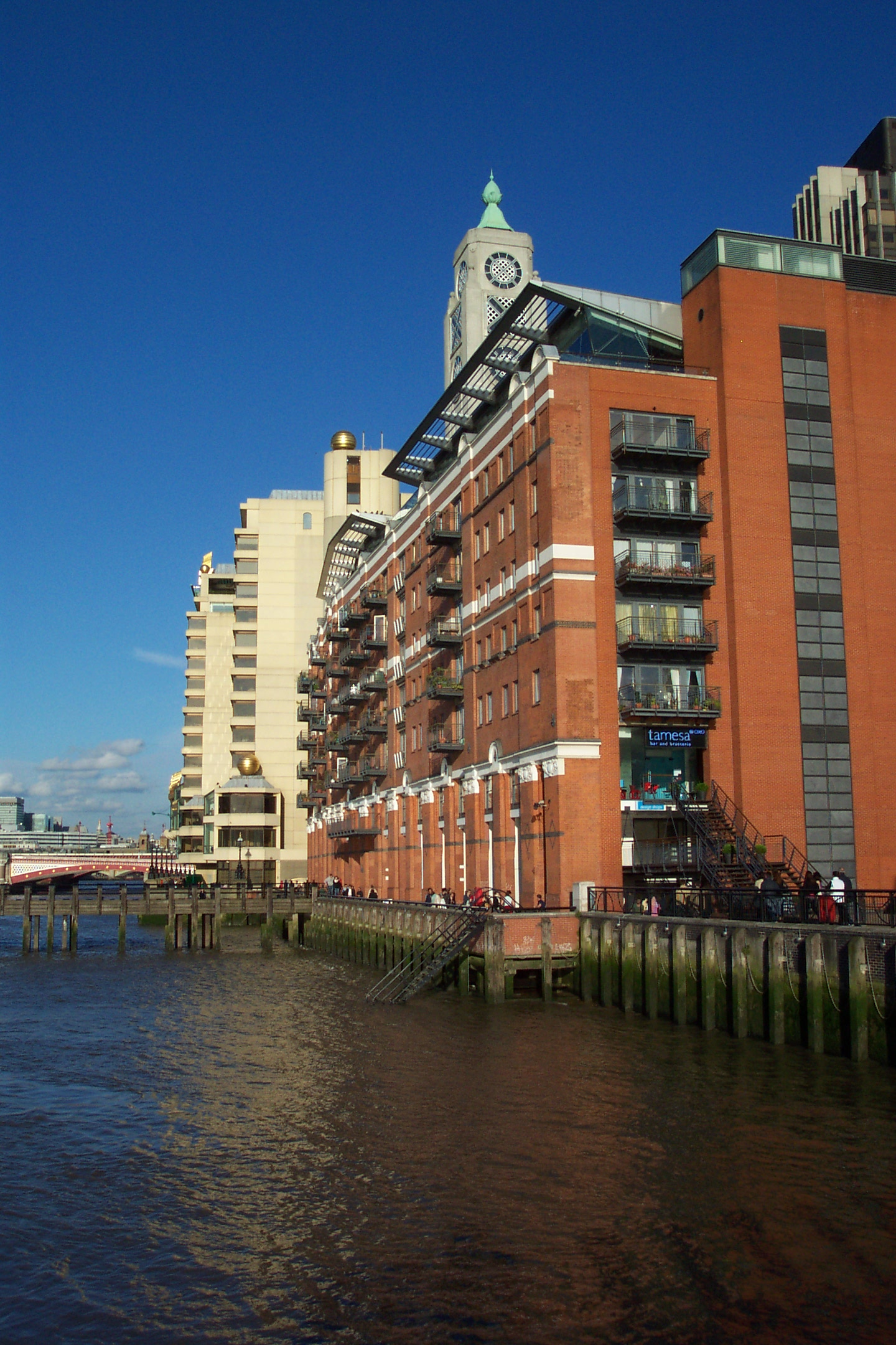 Oxo Tower in London. For more information see the Wikipedia article Oxo Tower.